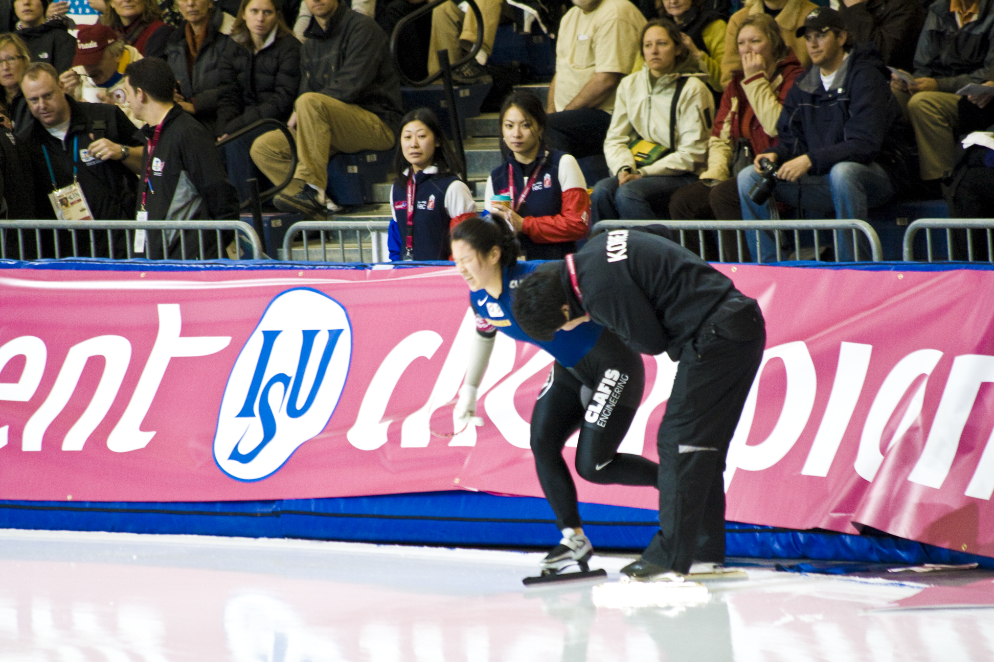 This athlete injuried herself during the race and hit the wall -- the walls were padded but it seems like she suffered an injury that prevented her from finishing the race.